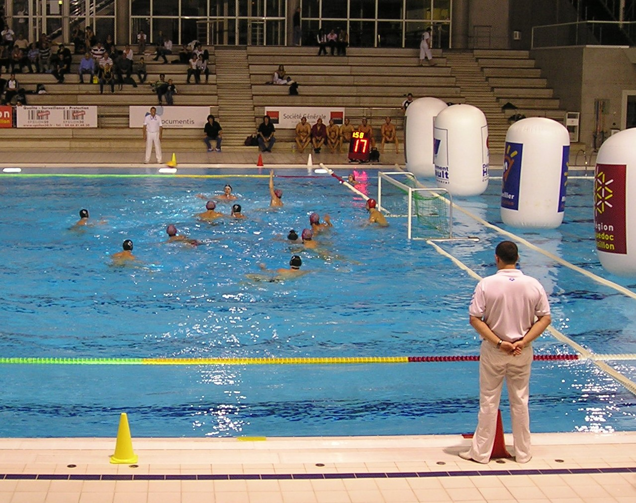 Montpellier, France, LEN Trophy first round, Cattaro vs. Budapest, third quarter-time. The FTC Budapest (dark green hat) at the offensive against VA Cattaro (mauve hat). The player at the ball is looking for a solution. In case of direct shoot, a defensor has one arm up. Referees: Valery Fogel (foreground) and Andrey Shaydakov (background).